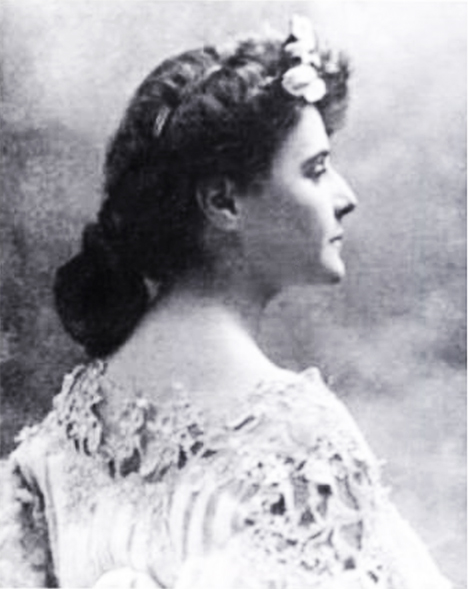 French actress Blanche Toutain (1874-1932) in 1901